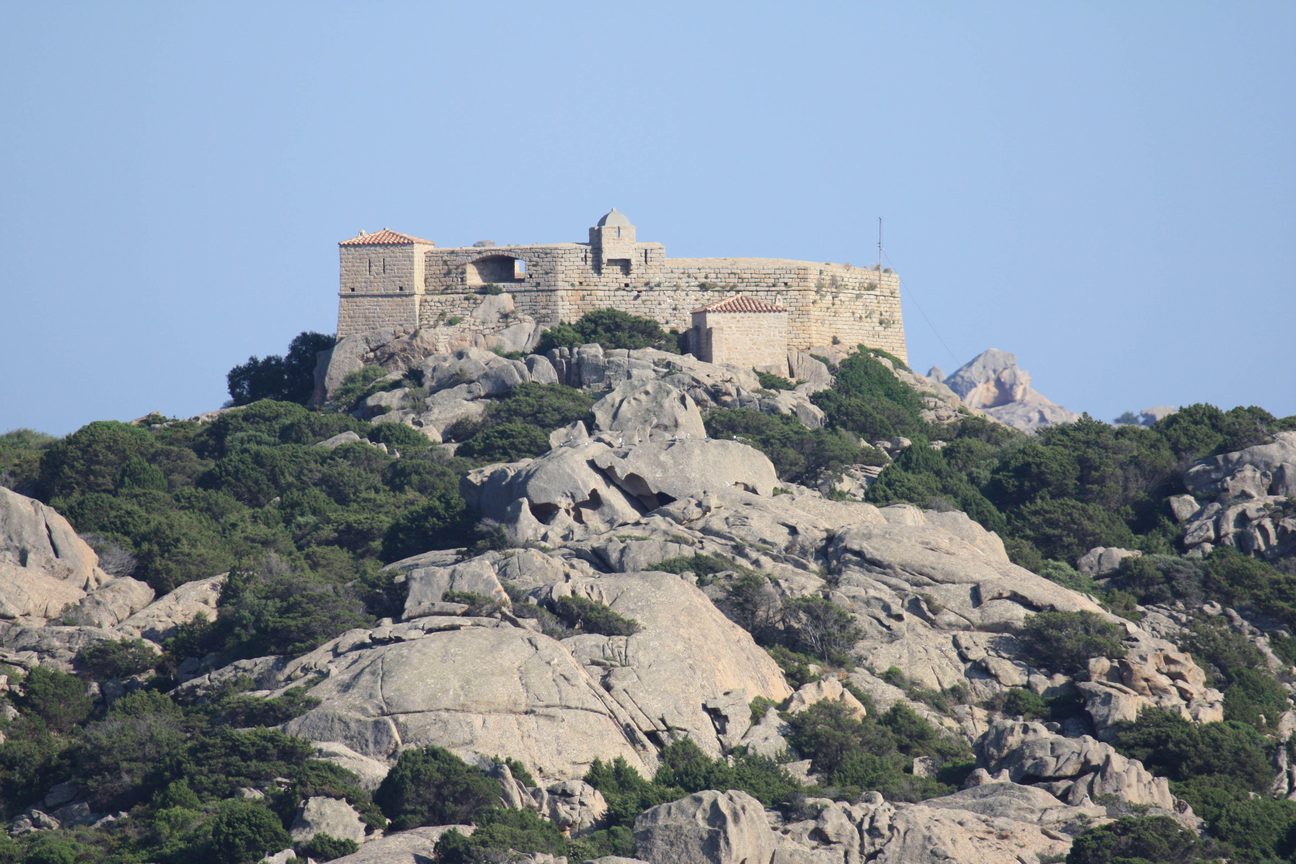 Isle of Santo Stefano - Napoleonic Castle Archipelago of La Maddalena Sardinia